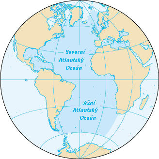 Maps of the Atlantic Ocean with Czech description